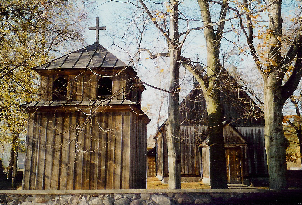 The church in Sadykierz before it got damaged in fire. In the front there is the bell tower which has survived